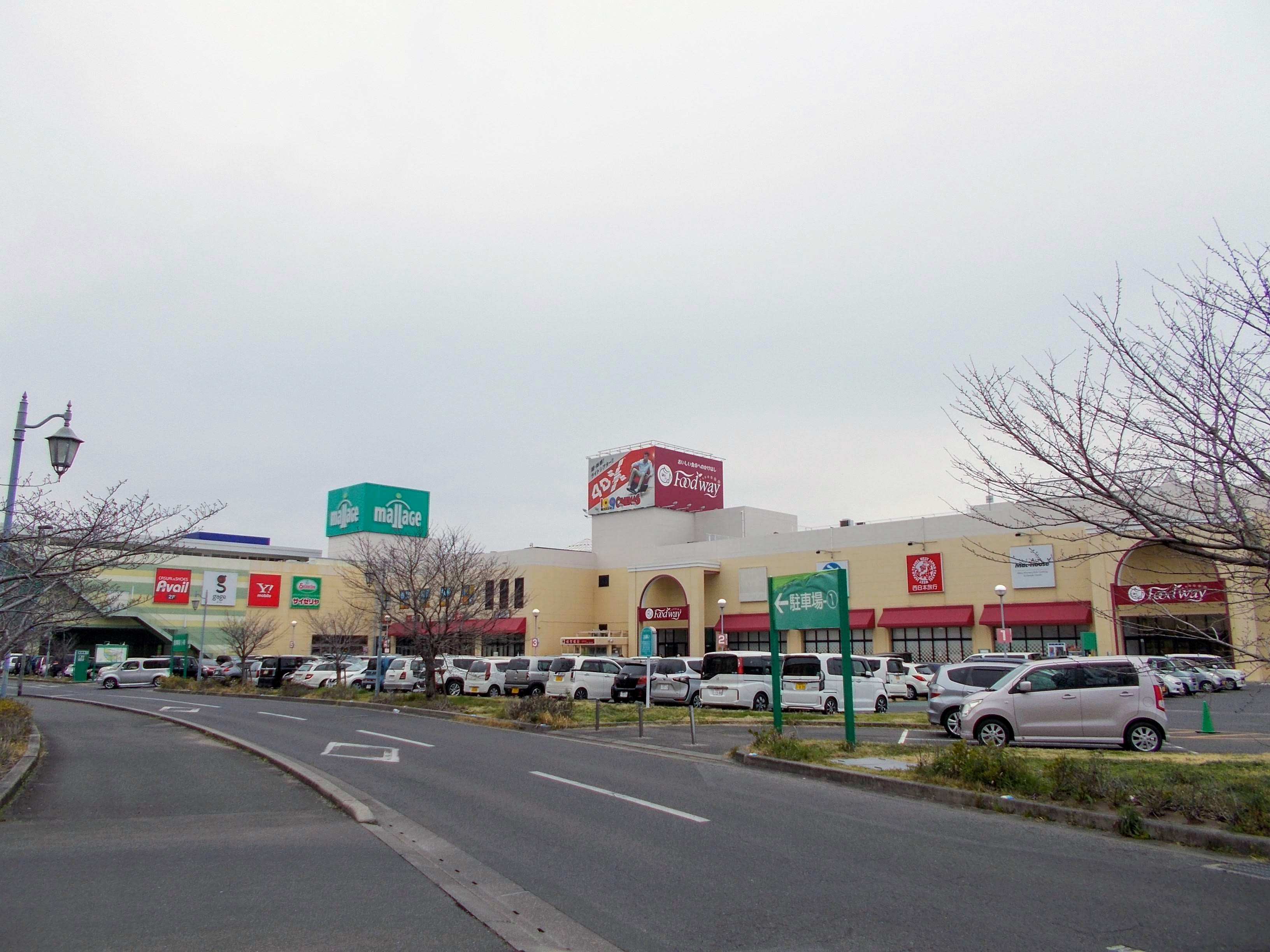 Mallage Saga is a shopping complex in Saga city, Saga, Japan